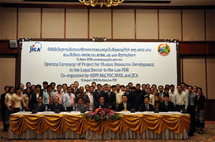 Tetsuji Nakamura, Parliamentary Secretary of Justice, attended the Opening Ceremony of the Project for Human Resource Development in the Legal Sector in Vientiane Prefecture on August 12, 2010. (For terms of use, see 法務省：法務省ウェブサイトのコンテンツの利用について.)